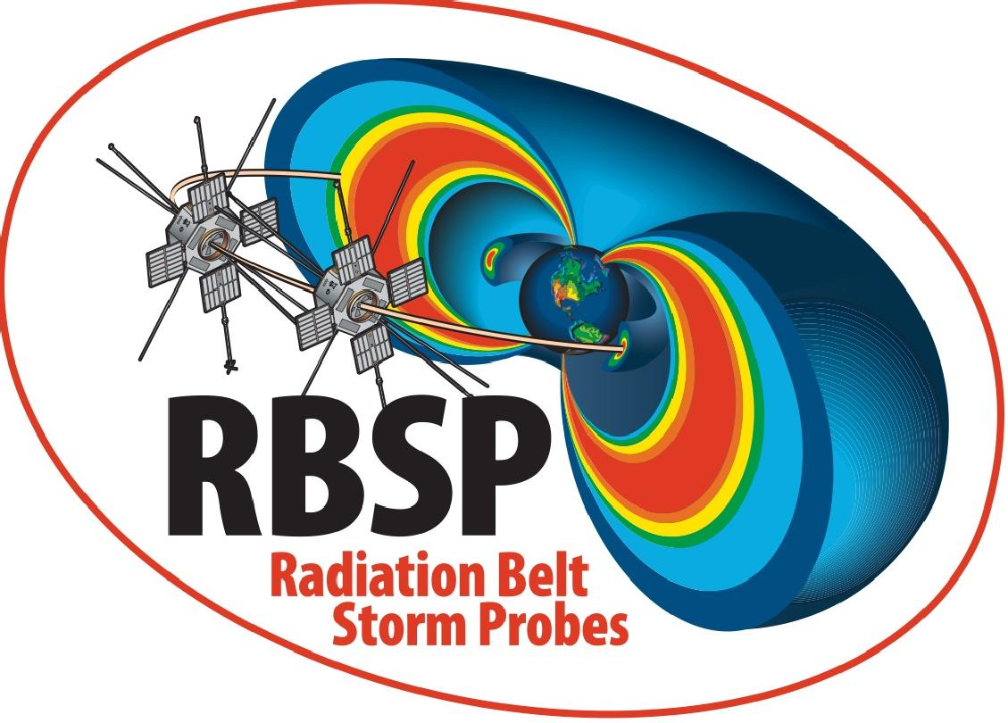 Logo of the Radiation Belt Storm Probes program